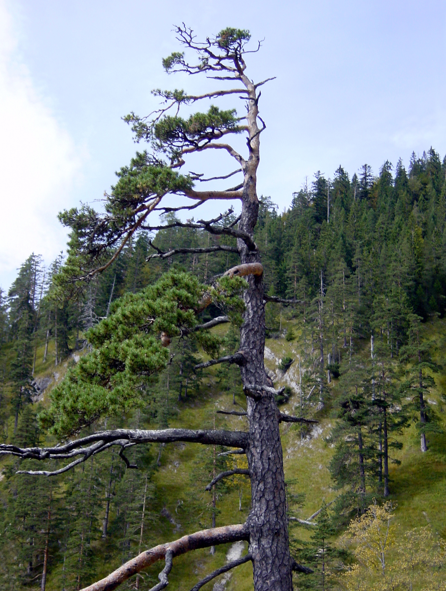 Old Pinus sylvestris, Herzogstand-Heimgarten, Bavaria, Germany.